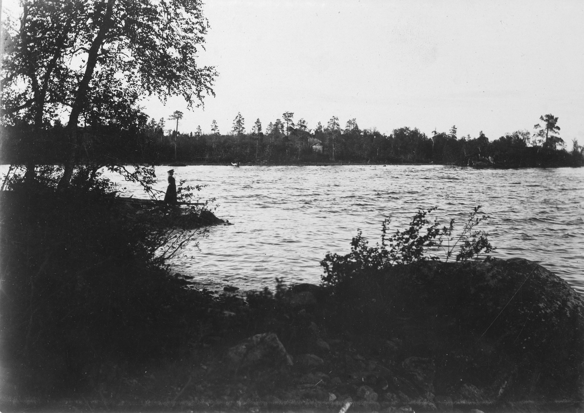 Kvinna mellan fallen i Skogfoss, omkring 1900 Foto:Ellisif Wessel Digitalmuseum ID 021016293643